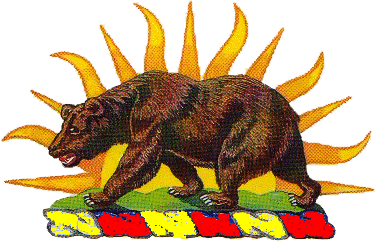 115th Observation Squadron - Emblem